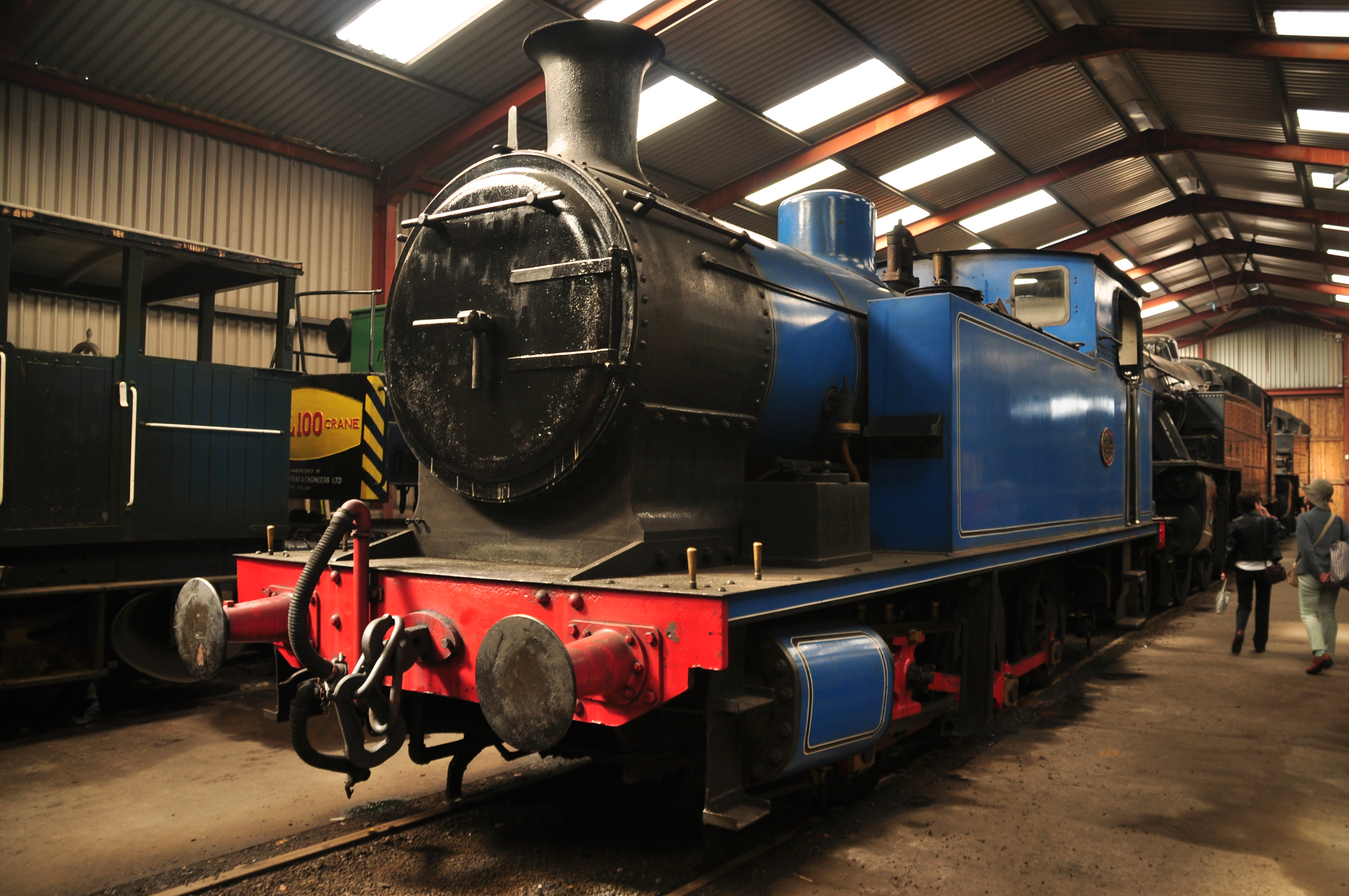 Haverthwaite railway station